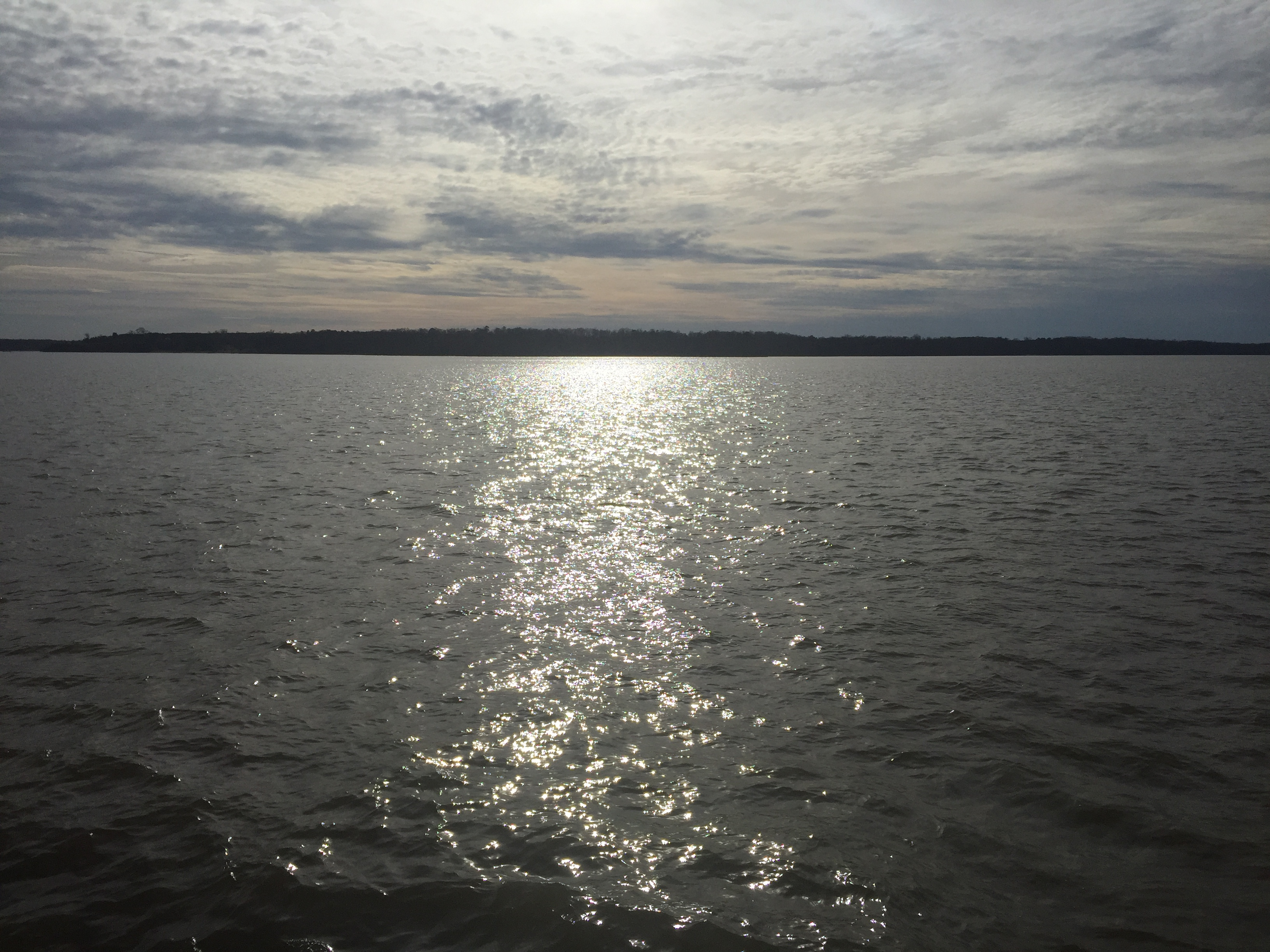 View from the James River Ferry Boat facing southwest at 3 eleven P M feb 24th 2019